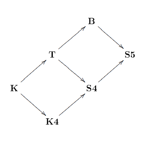 The expanding systems of the alethic modalities.